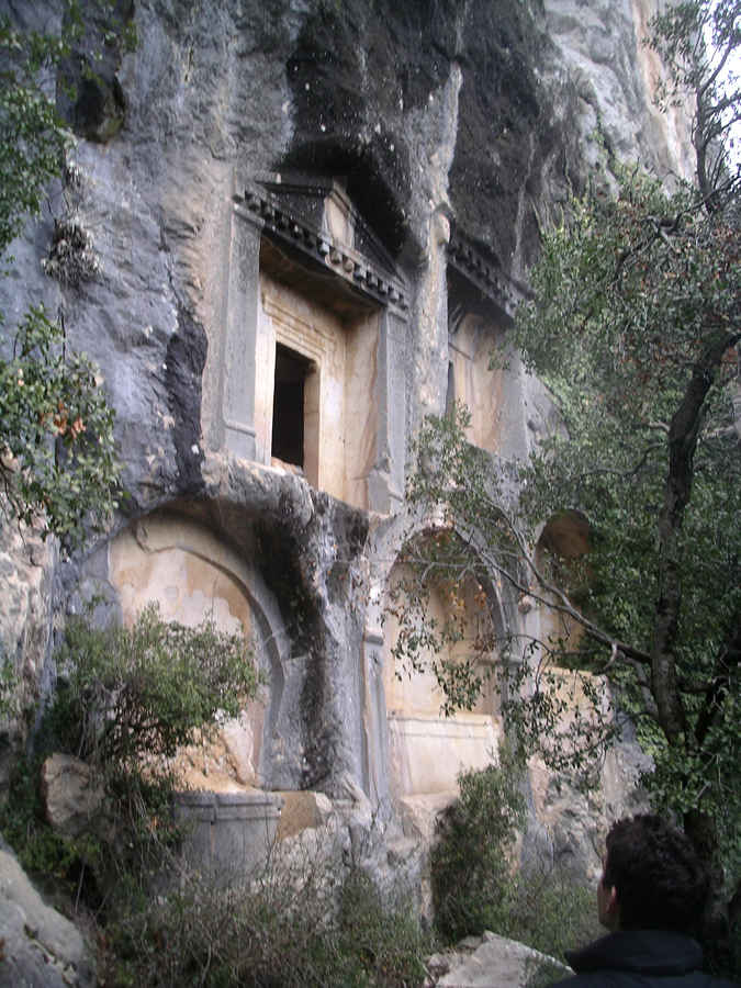 Rock cut tombs in Termessos, Turkey